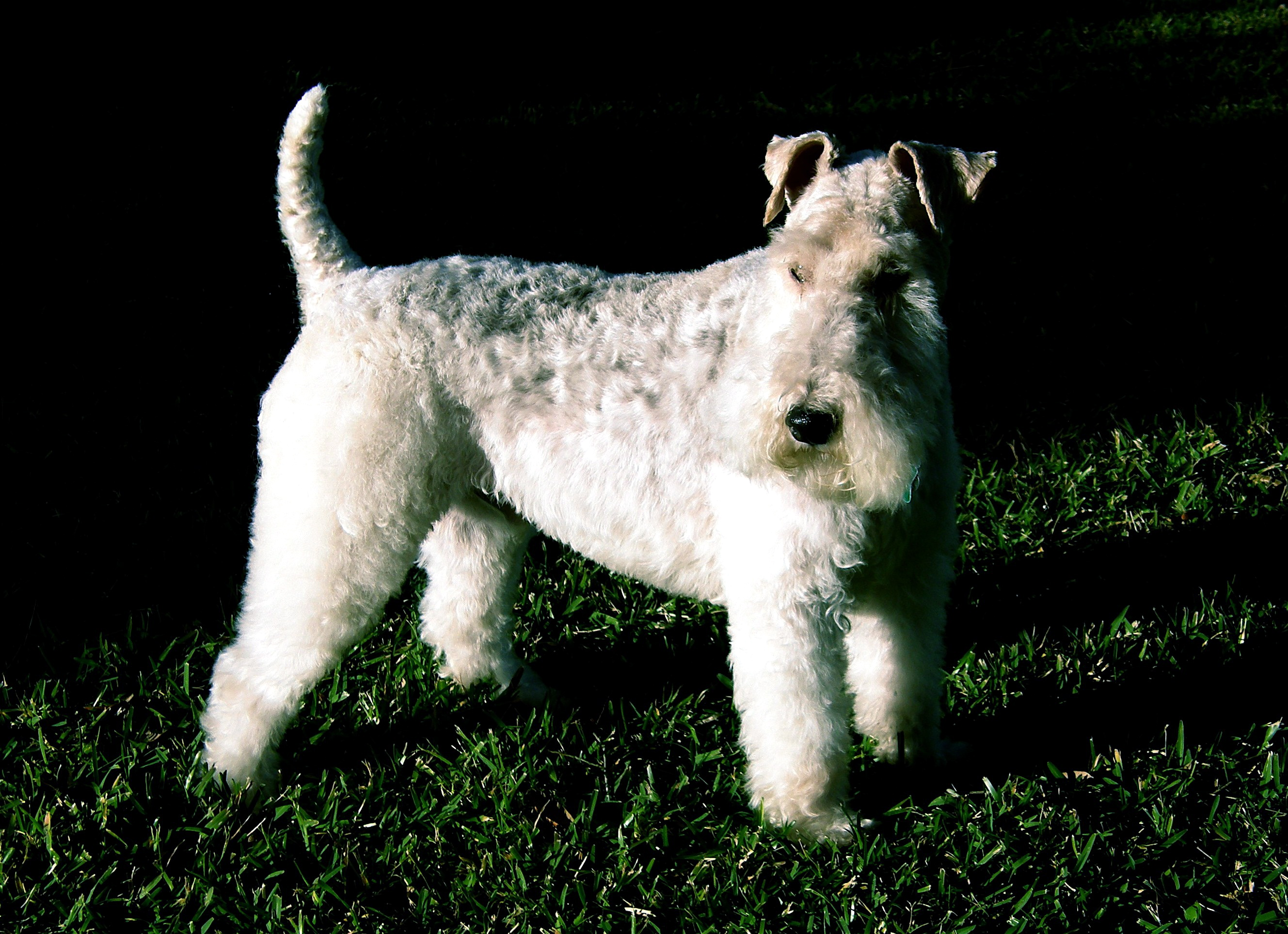 Wire haired fox terrier (Beamer)